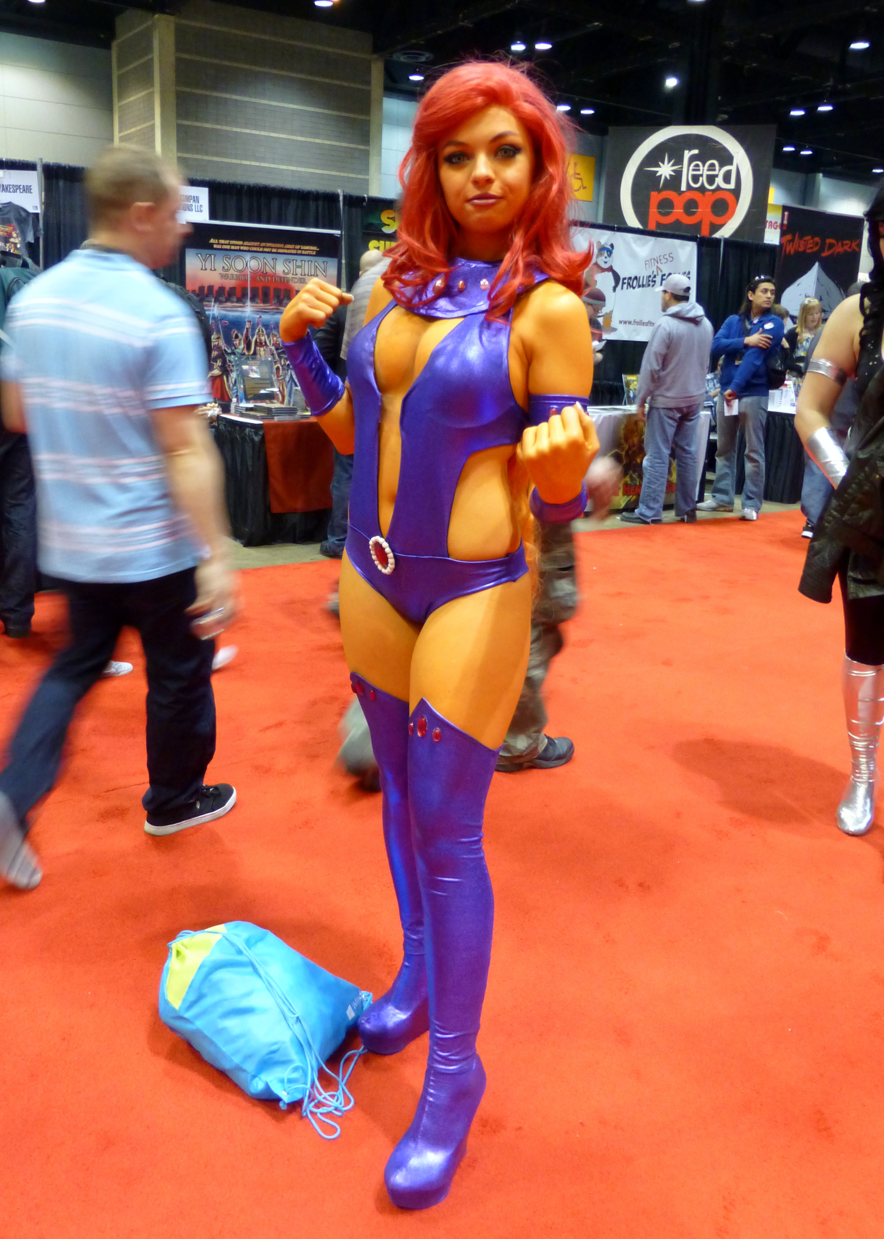 Starfire from Teen Titans Cosplay at Chicago Comic & Entertainment Expo (C2E2) 2014.